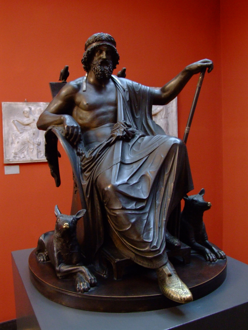 A photograph of "Odin" (1825-1827) by H. E. Freund, housed at the Ny Carlsberg Glyptotek, Copenhagen, Denmark.